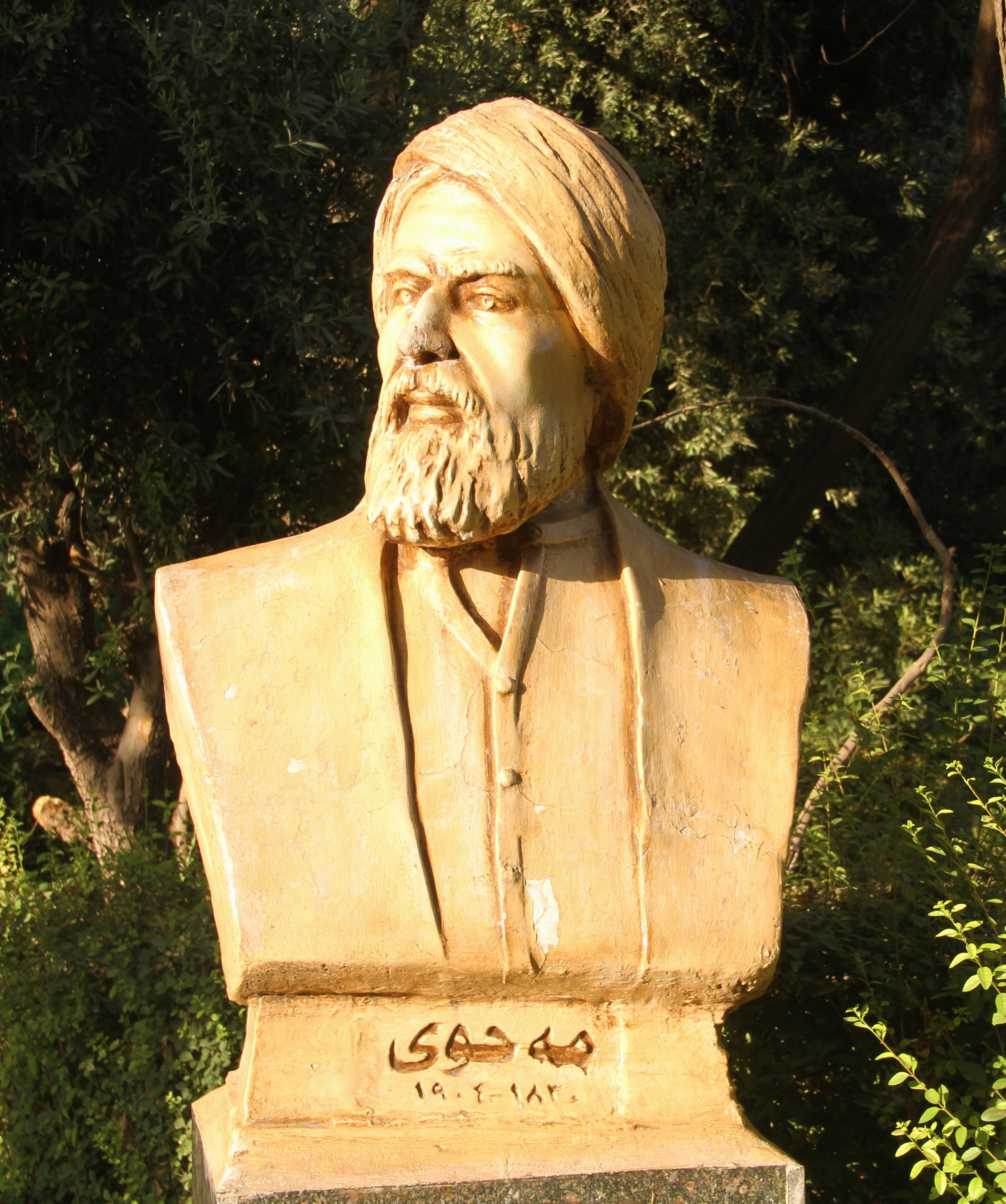 Statue of Kurdish poet Mahwi in Sulaymaniyah, Kurdistan, Iraq